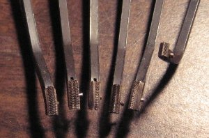 Close-up view of checkering tools.